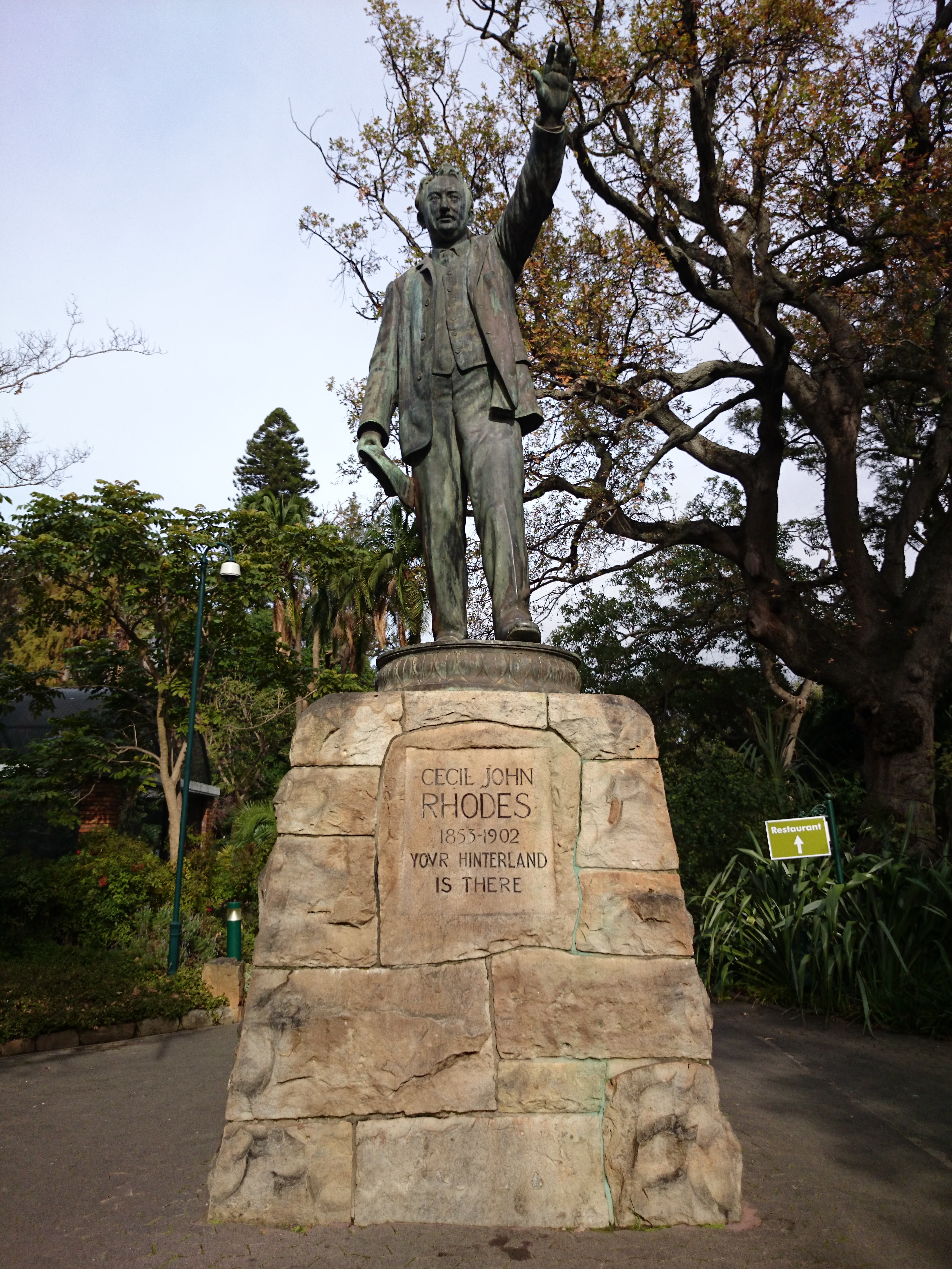 Cecil John Rhodes Statue at Company's Garden, Cape Town, with the writing: "1852 - 1902, Your Hinterland is There"